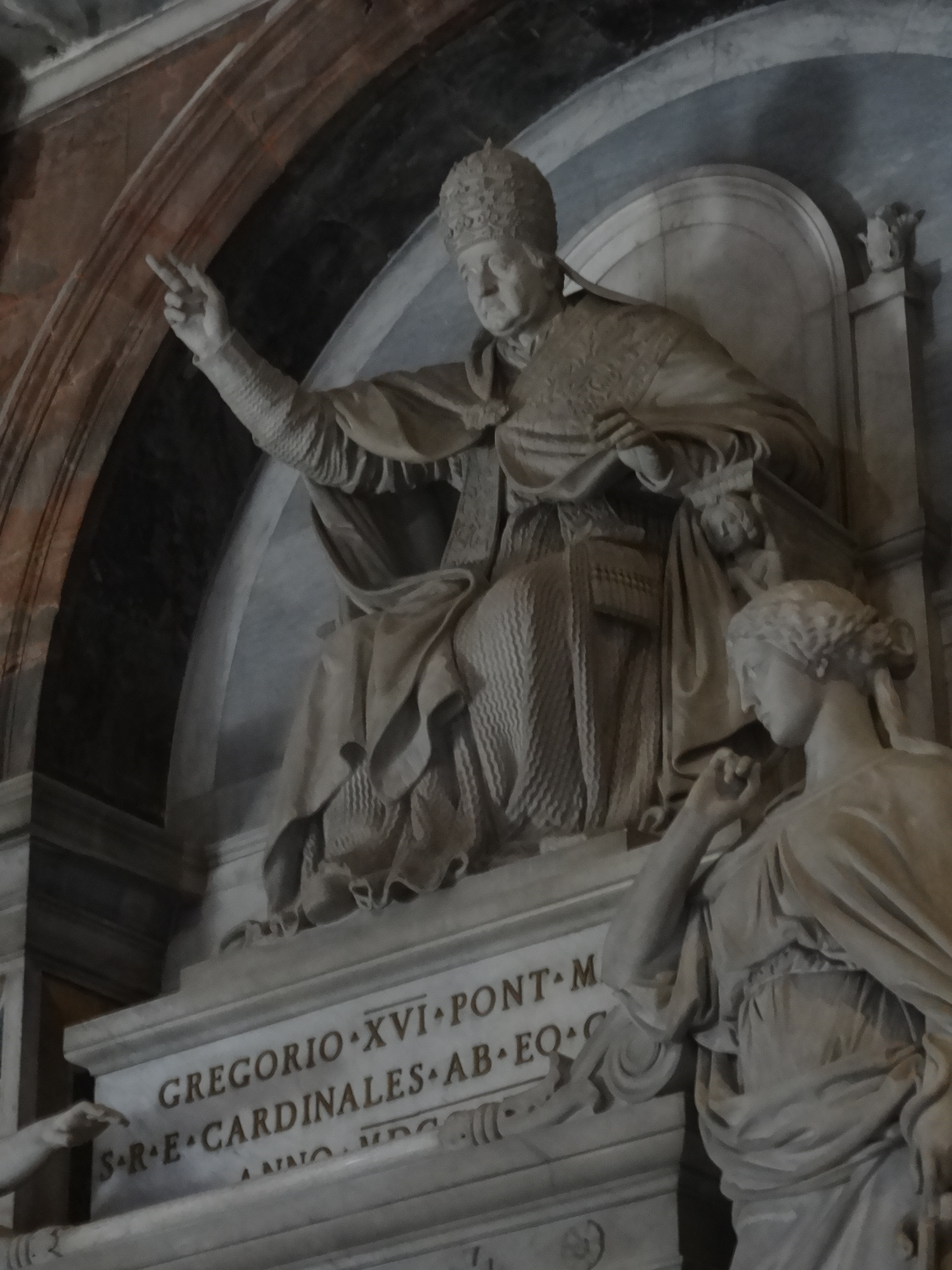 Monument to Gregorius XVI